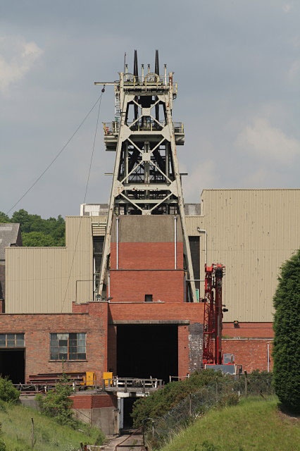 Welbeck Colliery The downcast shaft. This is the principal shaft for lifting coal. A large skip is used, filled underground from a large bunker and discharging at the surface onto conveyors which take the coal to be cleaned and sorted.